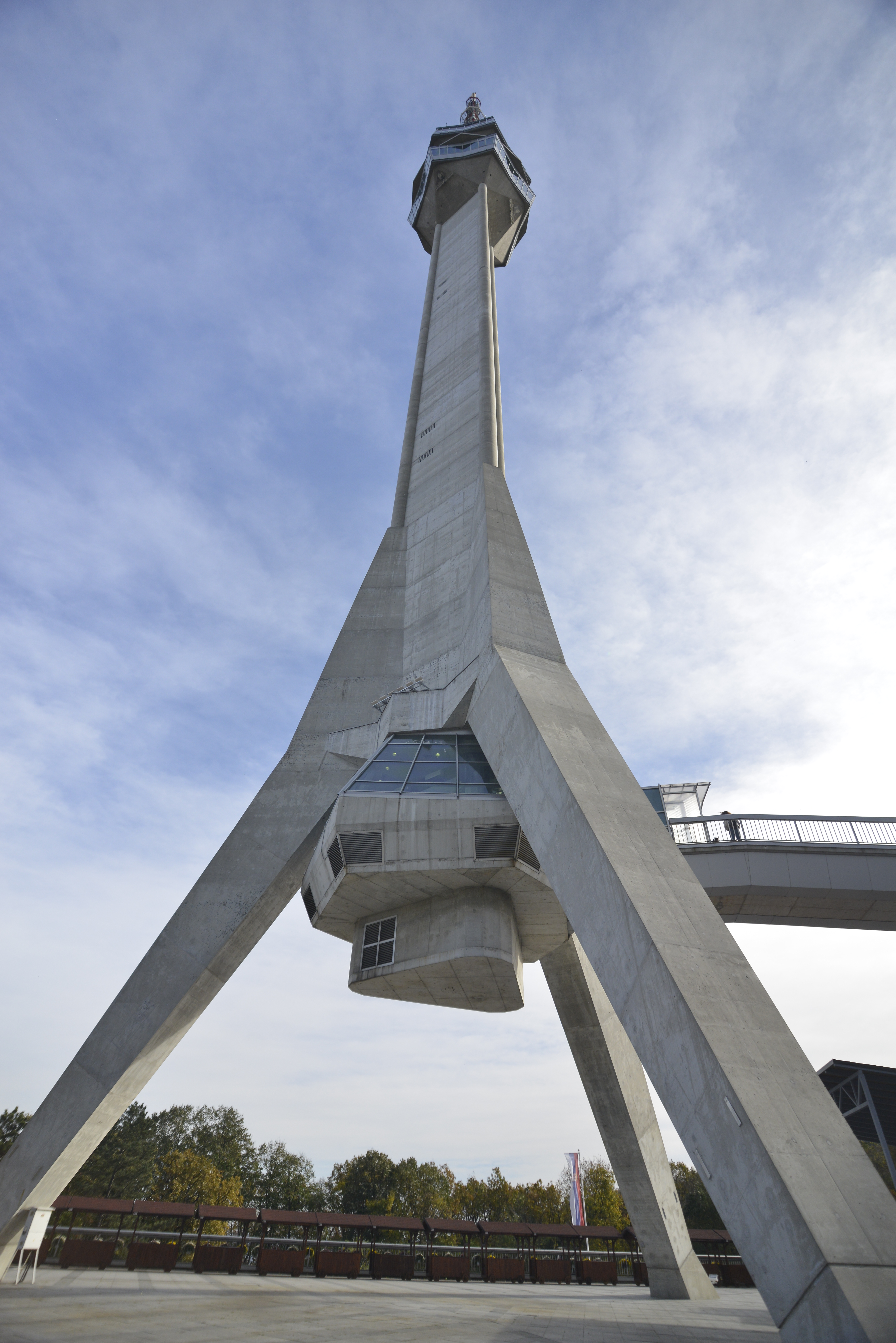 TV tower on Avala, Belgrade